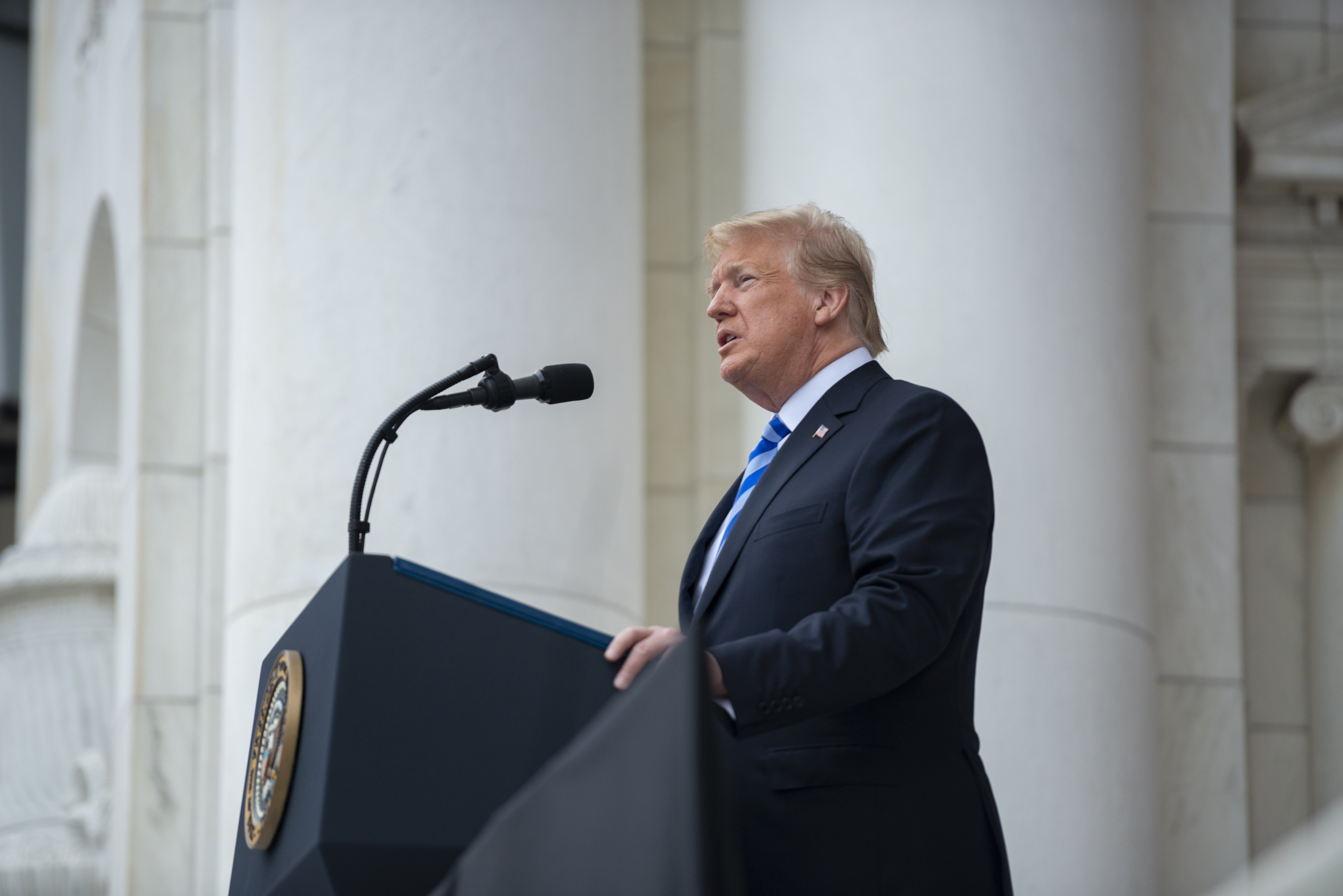 President Donald J. Trump speaks during the Memorial Day Observance in the Memorial Amphitheater at Arlington National Cemetery, Arlington, Virginia, May 28, 2018. This was the 150th Memorial Day wreath-laying and observance ceremony at Arlington National Cemetery, conducted by Trump and Secretary of Defense James Mattis. (U.S. Army photo by Elizabeth Fraser / Arlington National Cemetery / released)